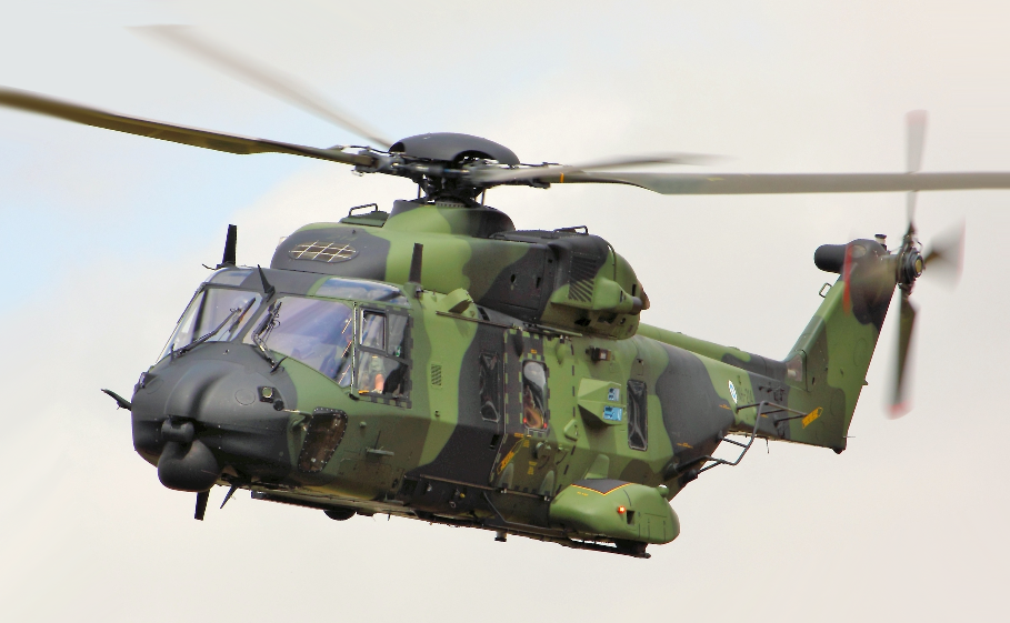 Finnish Army NH-90 - RIAT 2013